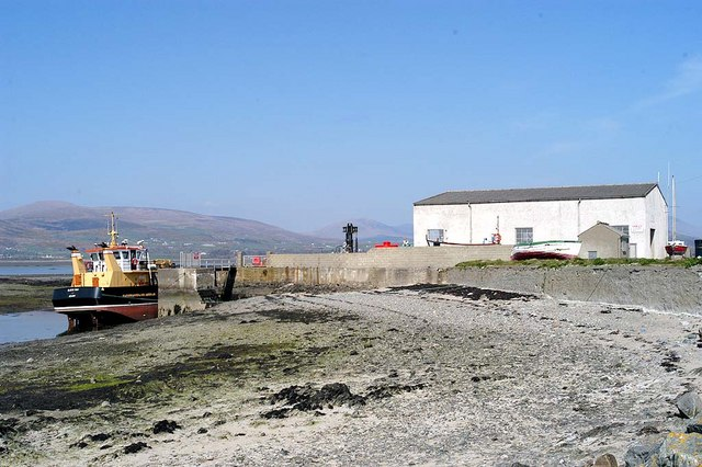 Greencastle Pier